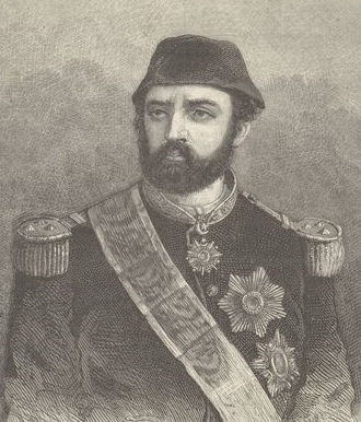 Abdulaziz